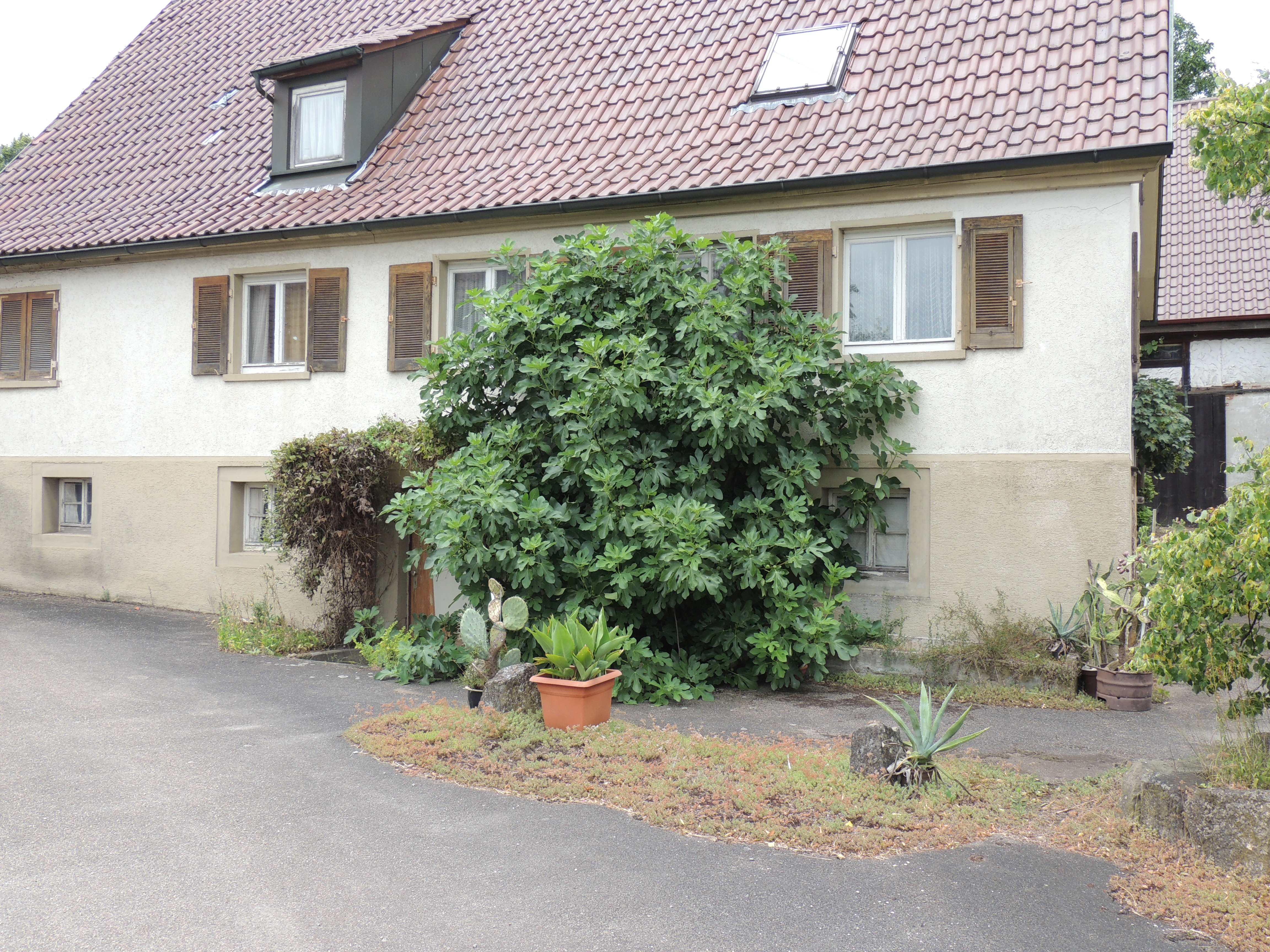 Common fig (Ficus carica) in D-74632 Neuenstein Obersöllbach, Baden-Württemberg, Germany